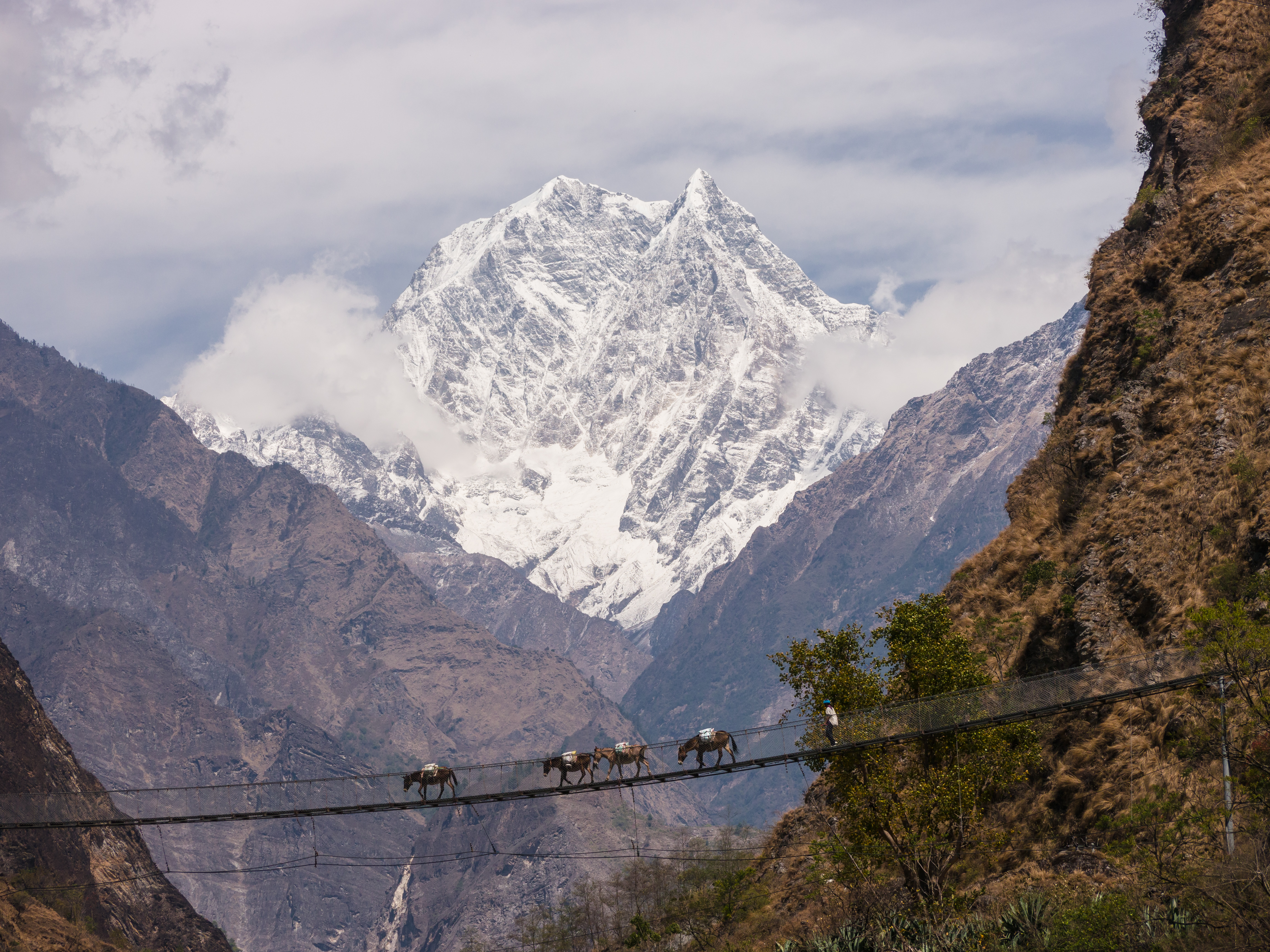 Nilgiri South (6,839m) forms an impressive backdrop to a large suspension bridge over the Kali Gandaki river near Tatopani.